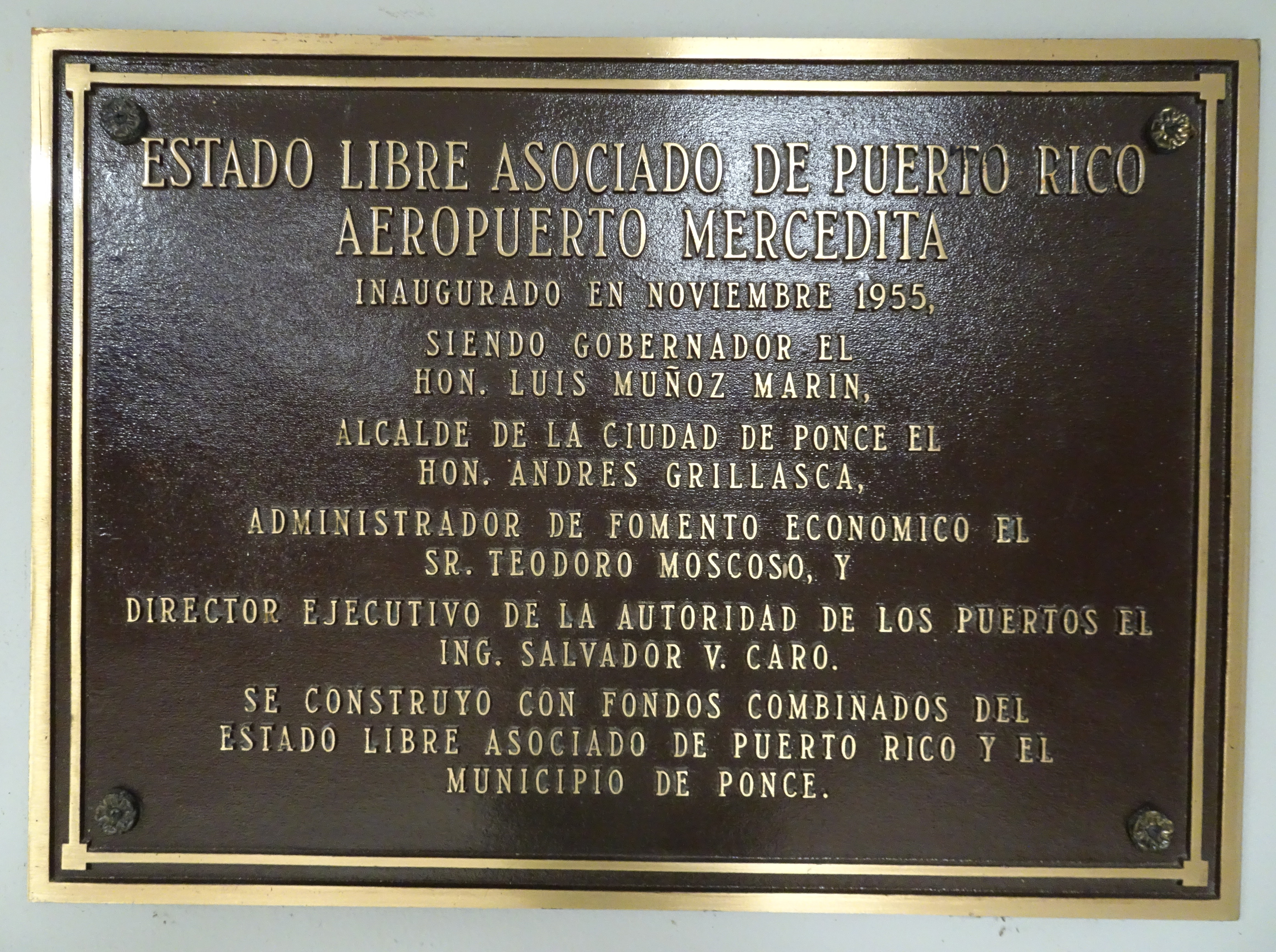 Placa en la entrada del Aeropuerto Internacional Mercedita, Bo. Vayas, Ponce, Puerto Rico, mirando al norte (DSC02044)